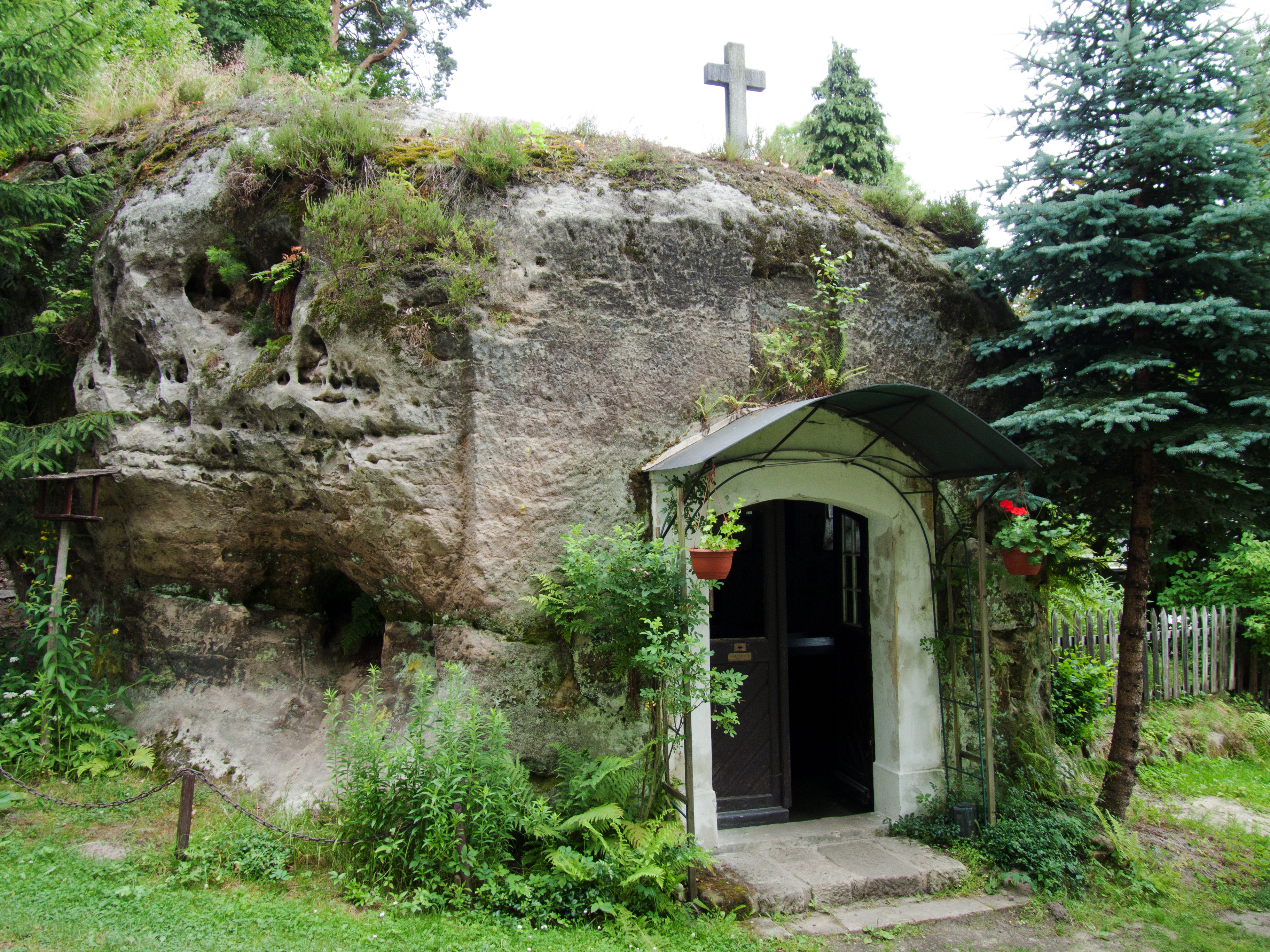 Saint Ignatius rock Chapel in the village of Všemily, Děčín District, Czech Republic, with the date 1760 engraved above the door